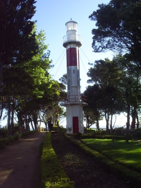 This is a photo of a national monument in Chile: 2130